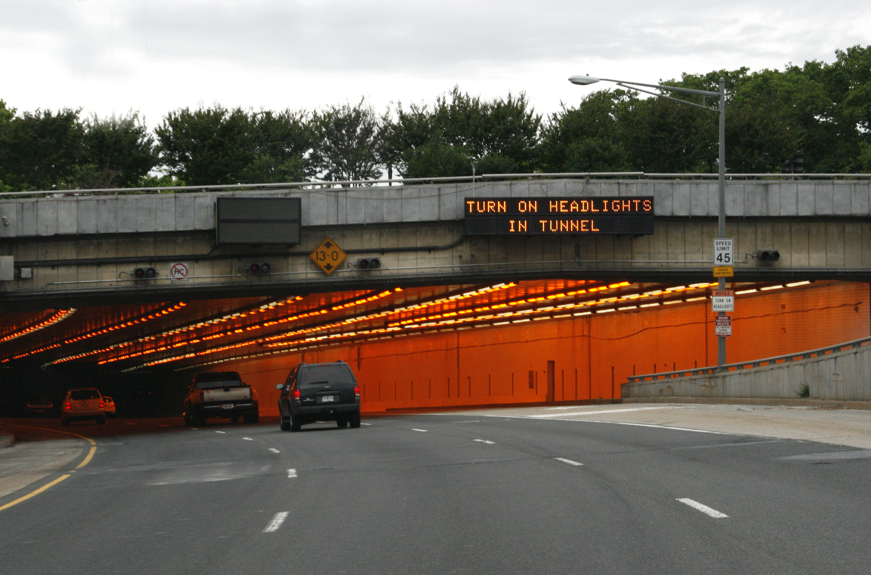 Vehicles entering the Third Street Tunnel, the Washington, D.C. segment of Interstate 395 located under the National Mall.